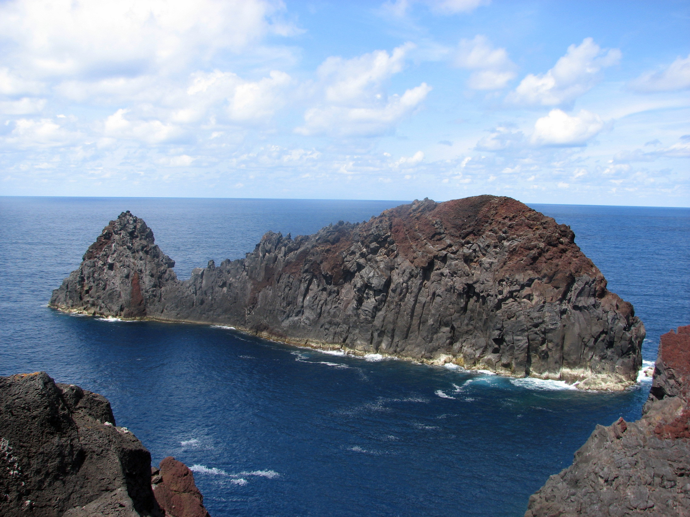 The famous "stone whale" of Ponta da Barca, Graciosa, Azores.